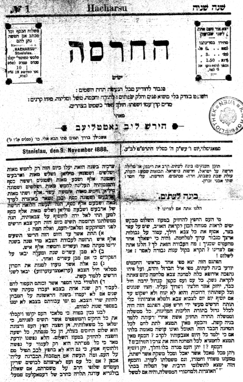 First edition of Gottlieb's Hacharsu on 9 November 1888